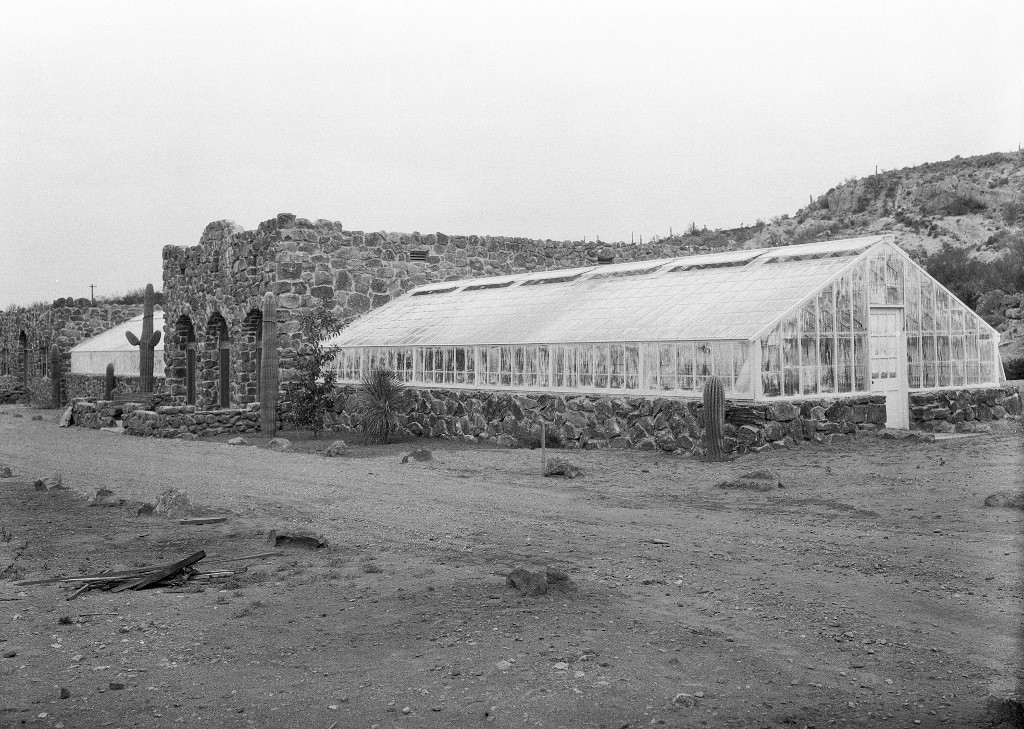 The newly constructed Smith Building with greenhouses, 1926.